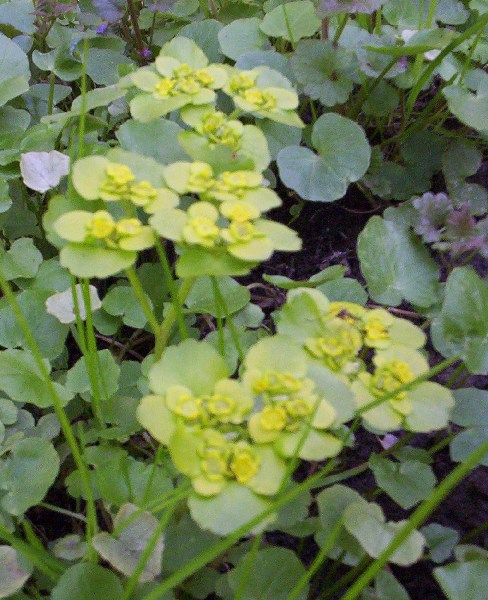 Chrysosplenium alternifolium growing in forest near Żyrardów, Eastern Masovia, Poland.